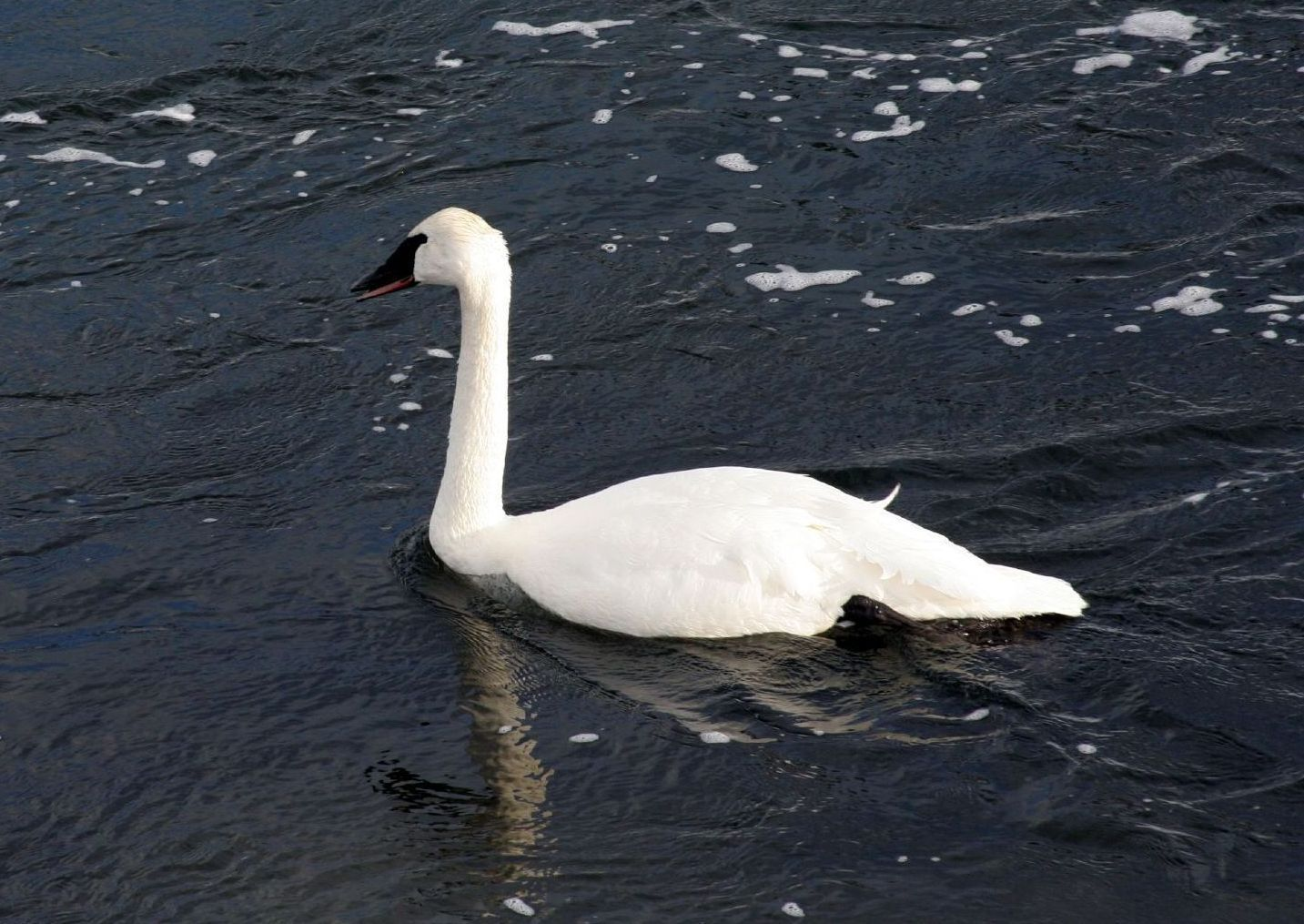 Trumpeter swan (Cygnus buccinator) in Yellowstone National Park